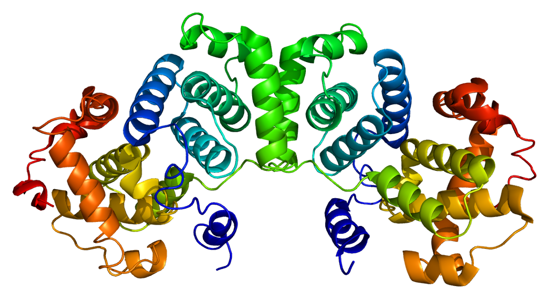 Structure of the CCNB1 protein. Based on PyMOL rendering of PDB 2b9r.